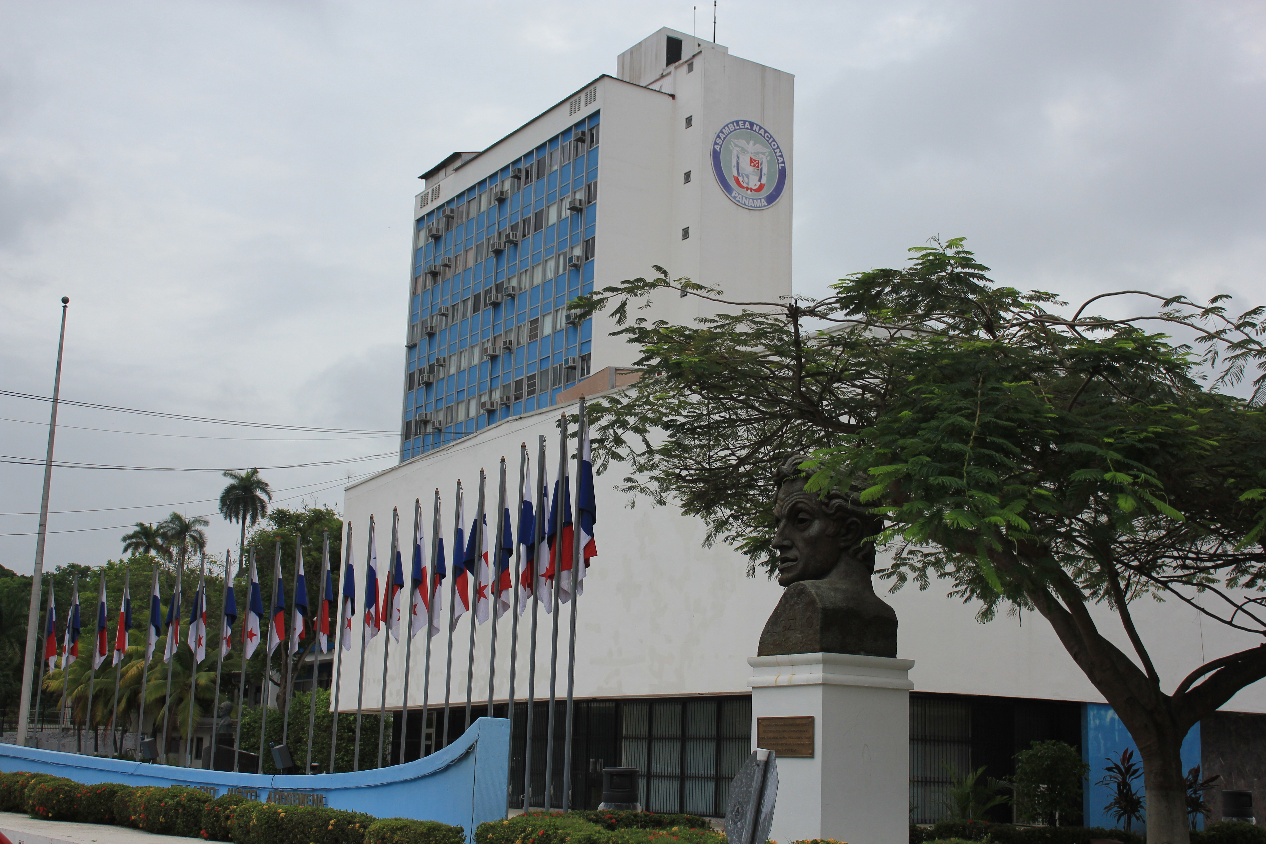 Building of the National Assembly, Panama